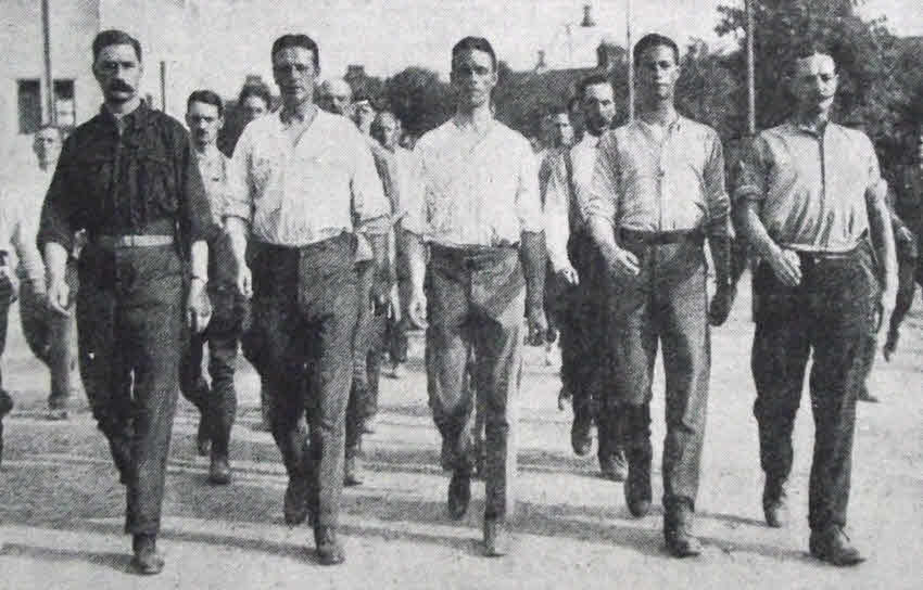 Rickard, J (DATE), 2nd King Edward's Horse on Parade